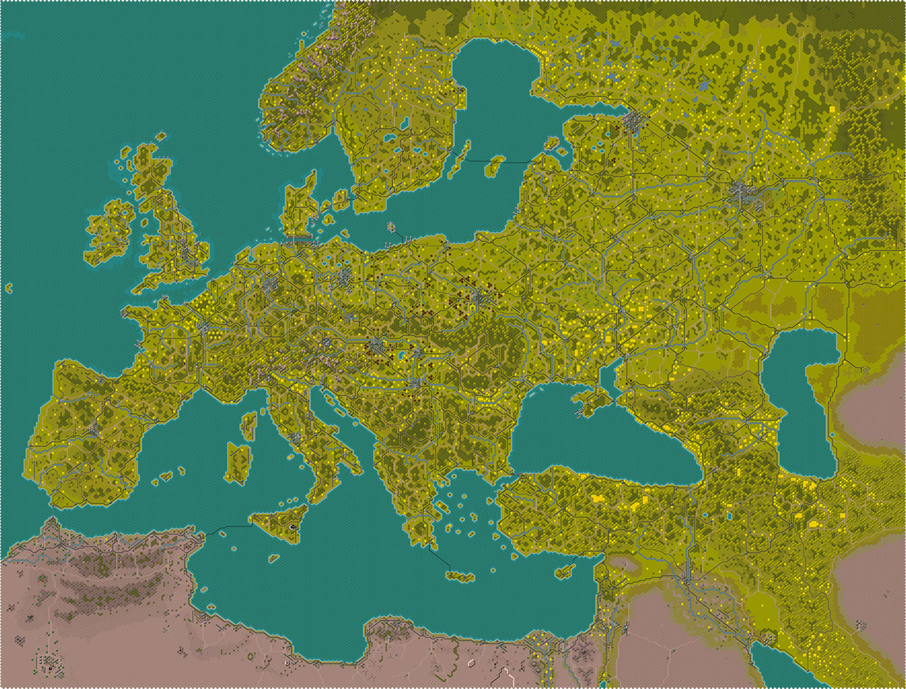 A multiplayermap for seven players - Europe after the first world war...